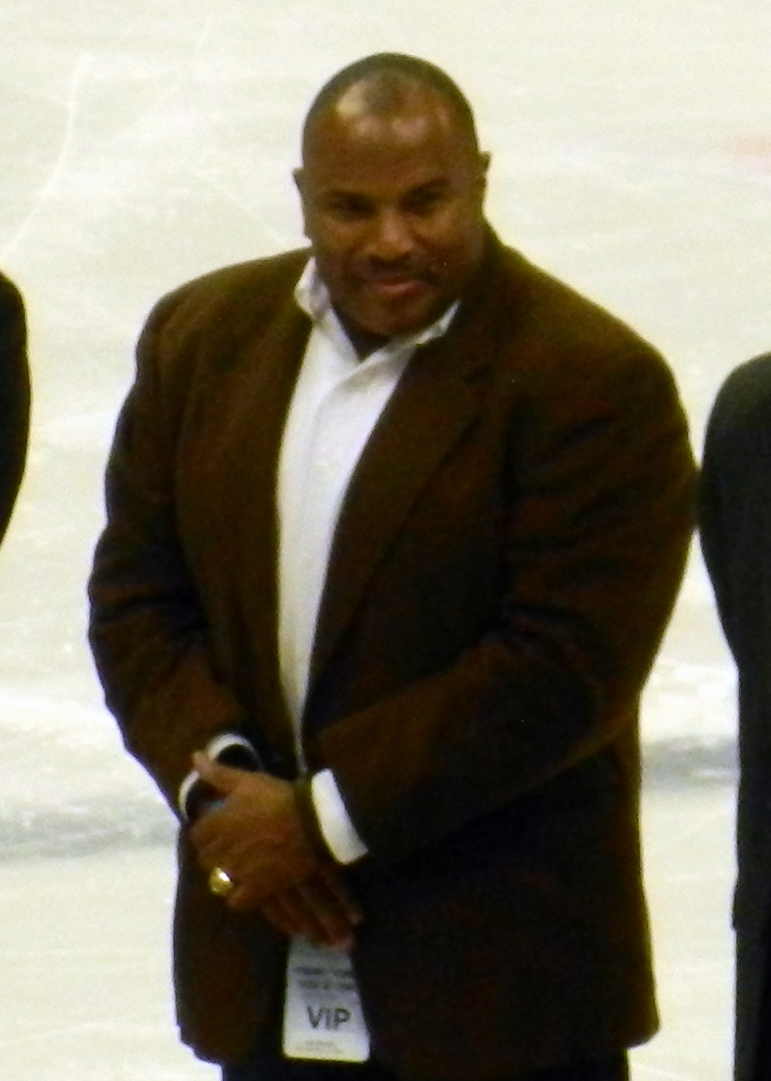 Joe Morris in 2014 before the ceremonial puck drop at the Frozen Dome Classic